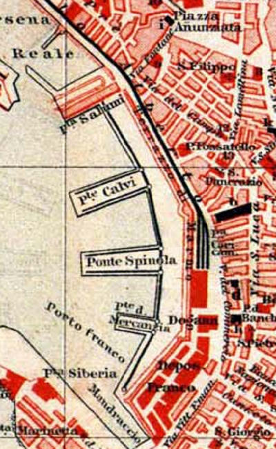 Crop from Map of Genoa, from Meyers Konversationslexikon, 4th ed., vol. 7